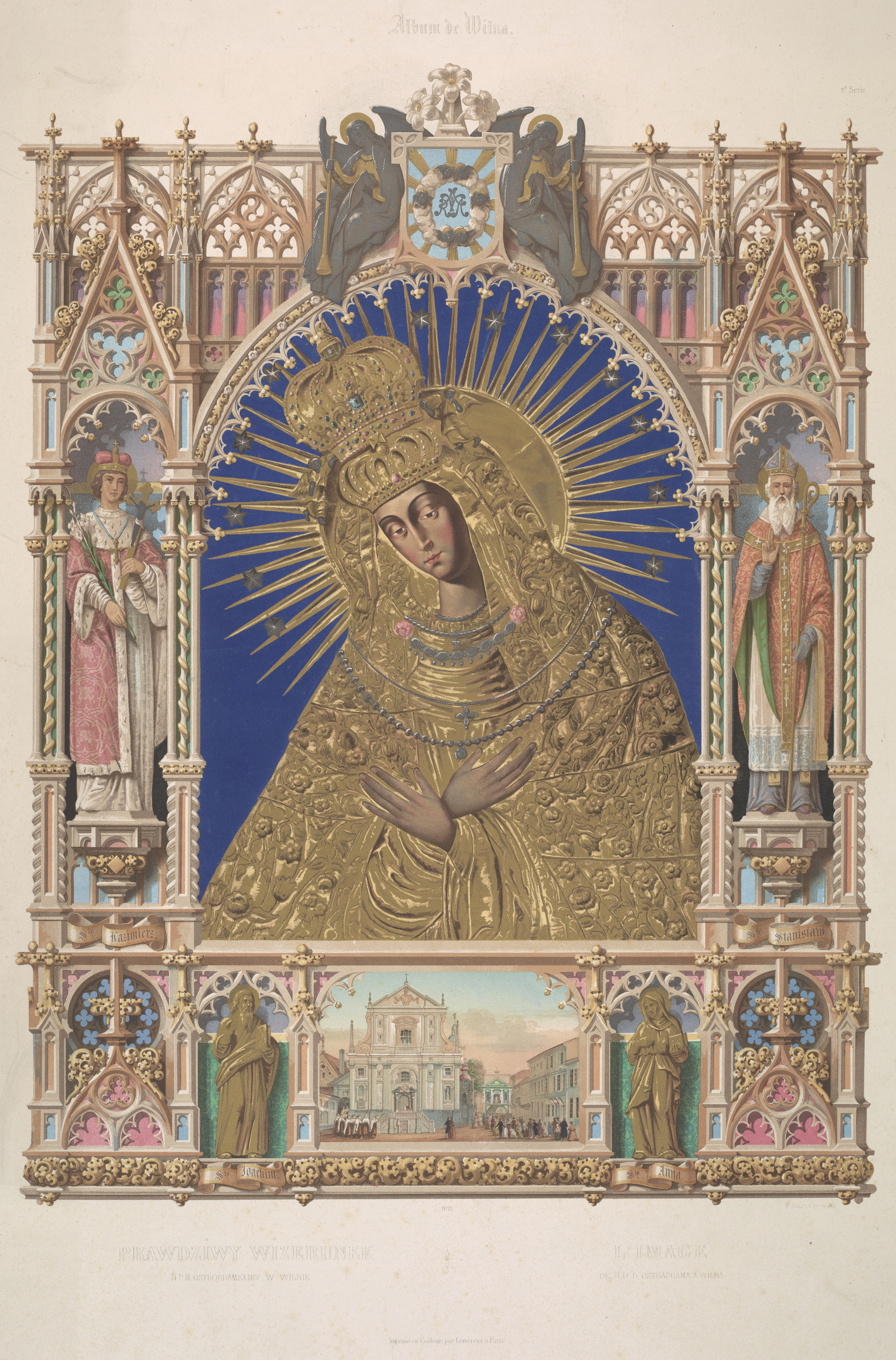 Holy Mother of Ostra Brama (Wilno = Vilnius)